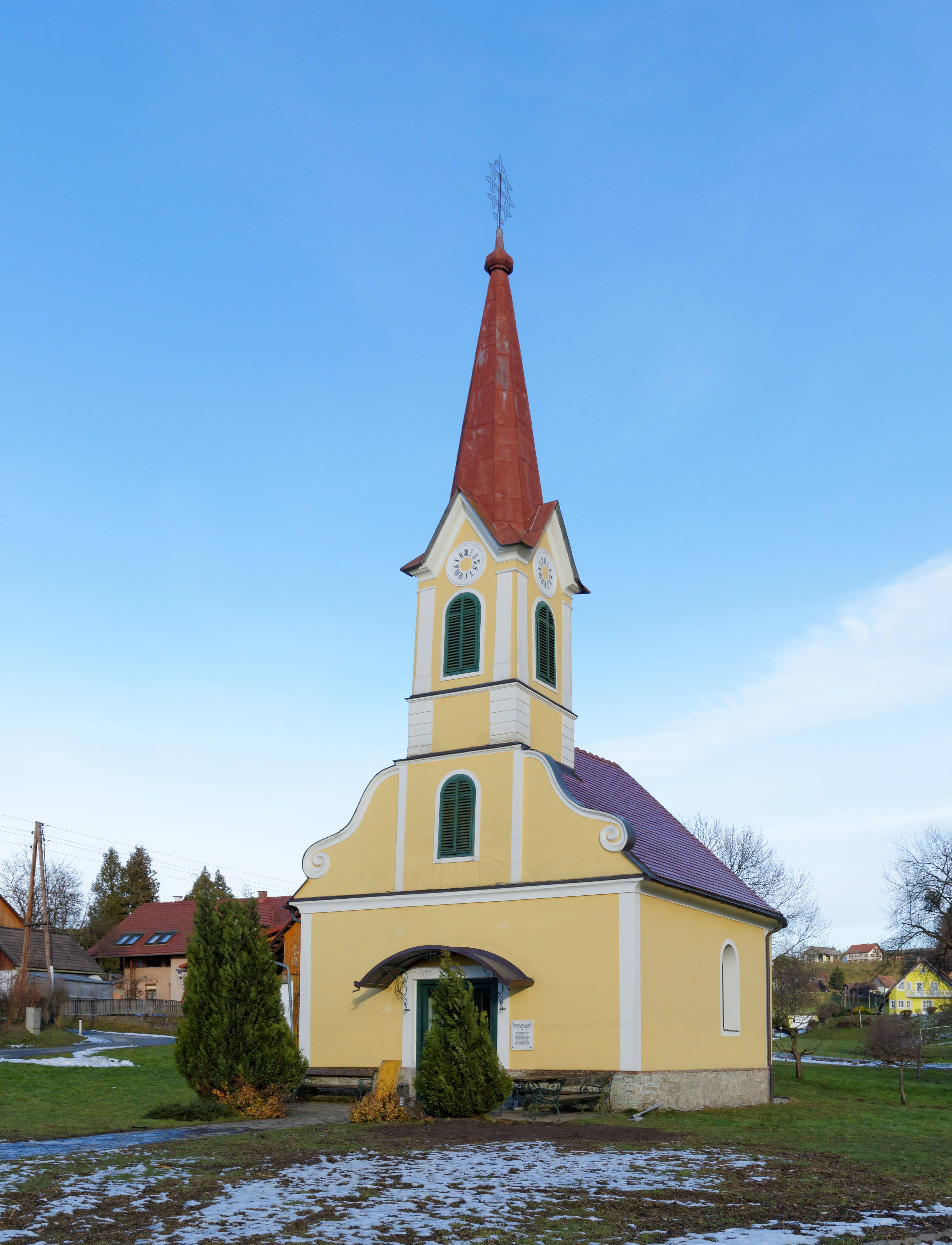 Chapel in Neudorf im Sausal, Municipality Sankt Andrä-Höch, Styria, Austria